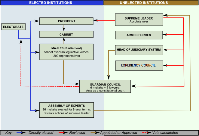 Government of Islamic Republic of Iran, english text